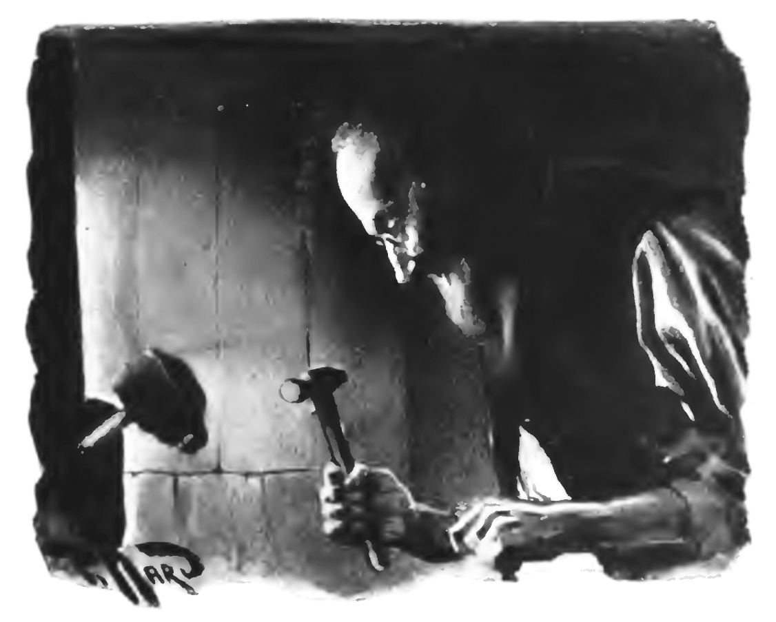 He worked from 7am to 10pm, and turned out 11lbs of these nails a week.